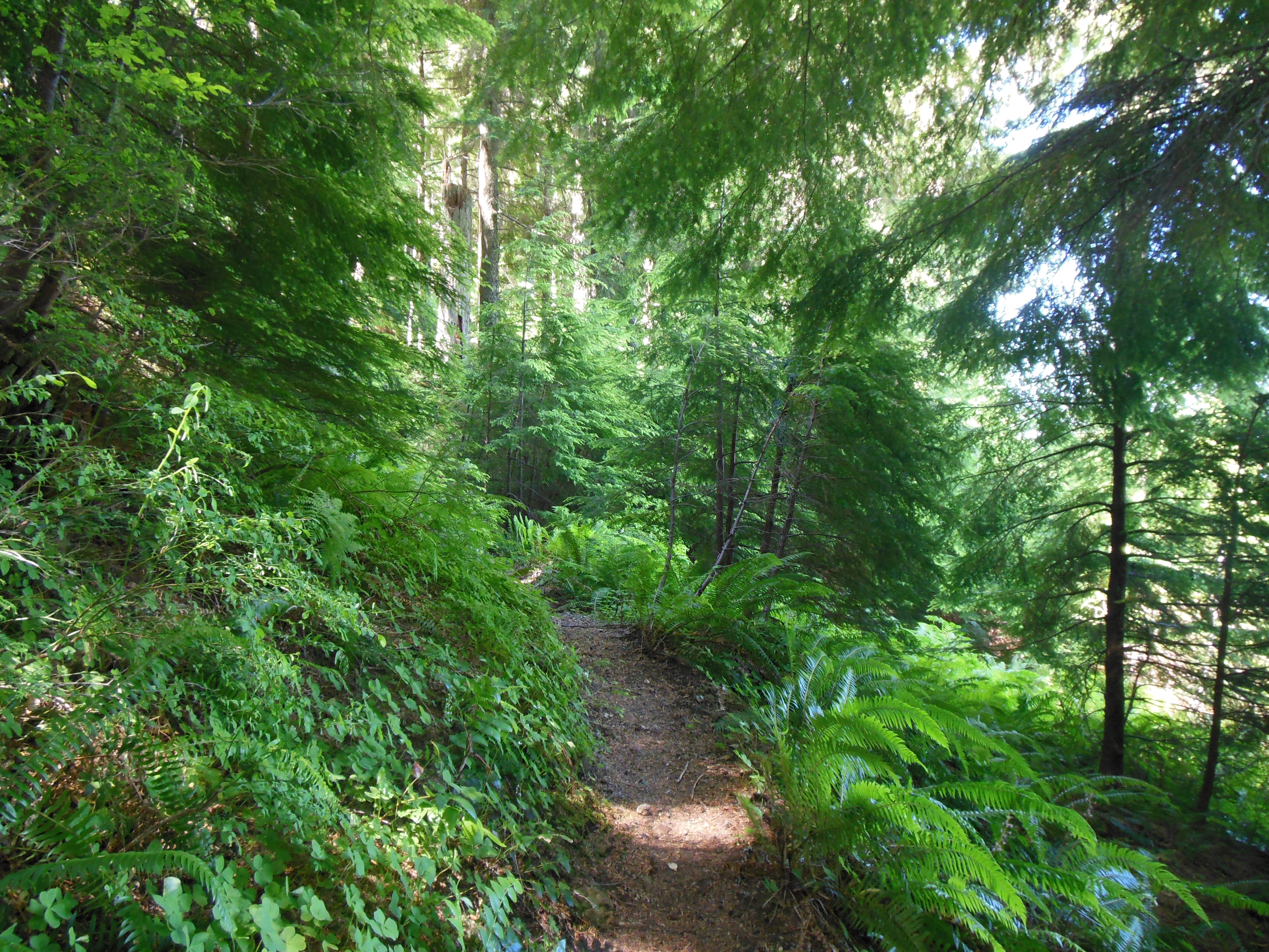 A trail below Mount June in the Umpqua National Forest, Lane County, Oregon, United States